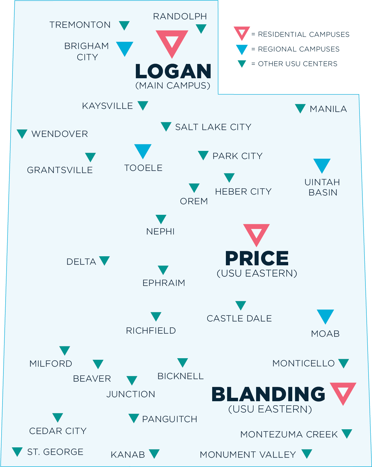 Map of USU campuses throughout Utah.